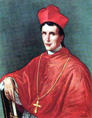 Angelo Ramazzotti